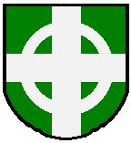 An heraldic cross.